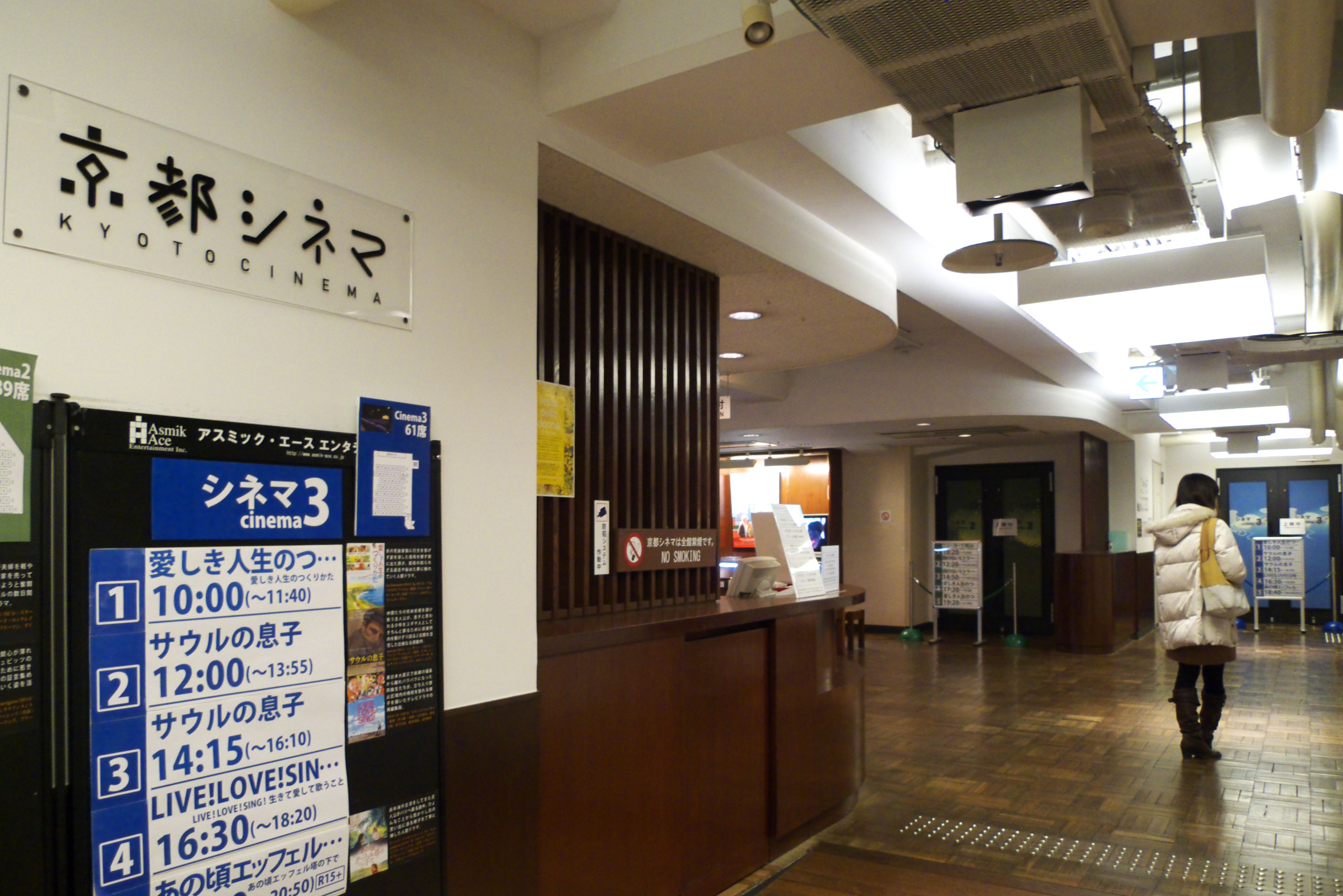 Kyoto Cinema in Kyoto City, Japan